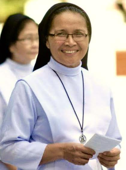 Superior General of the Congregation of the Religious of the Virgin Mary